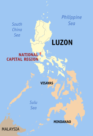 Locator map of Metro Manila, the National Capital Region (NCR) in the Philippines.